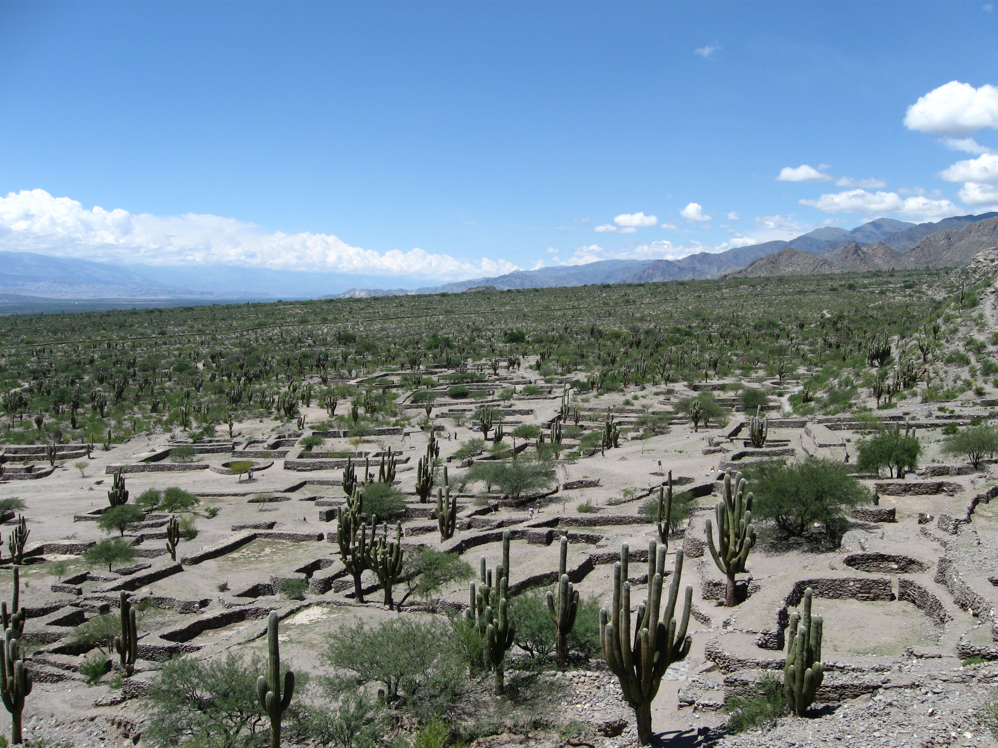 Ruinas de Quilmes